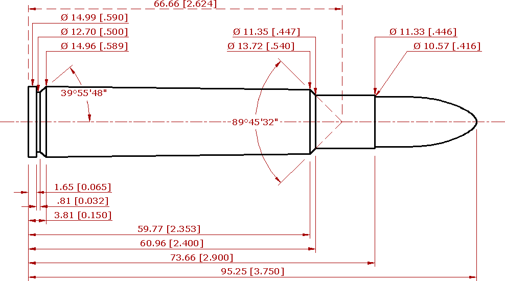 CIP compliant schematic of the .416 Rigby cartridge. All values in millimeters [inches].